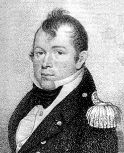 Jesse Duncan Elliott, second-in-command, US Naval Forces, Battle of Lake Erie With the courtesy, cooperation, and permission of the Special Collections Librarian of Dickinson College, Carlisle, PA 17013